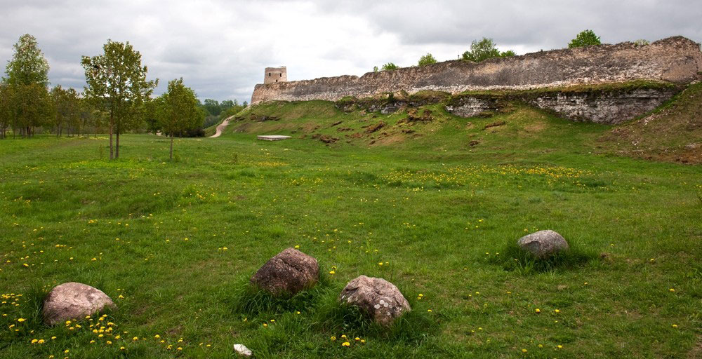 Wall Izborsk Fortress